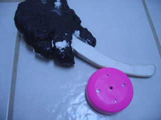 Photograph of sample underwater hockey glove, stick, and puck. Sticks have a great variety of shapes but must have no dimension greater, or any angle more acute, than provided under current rules.